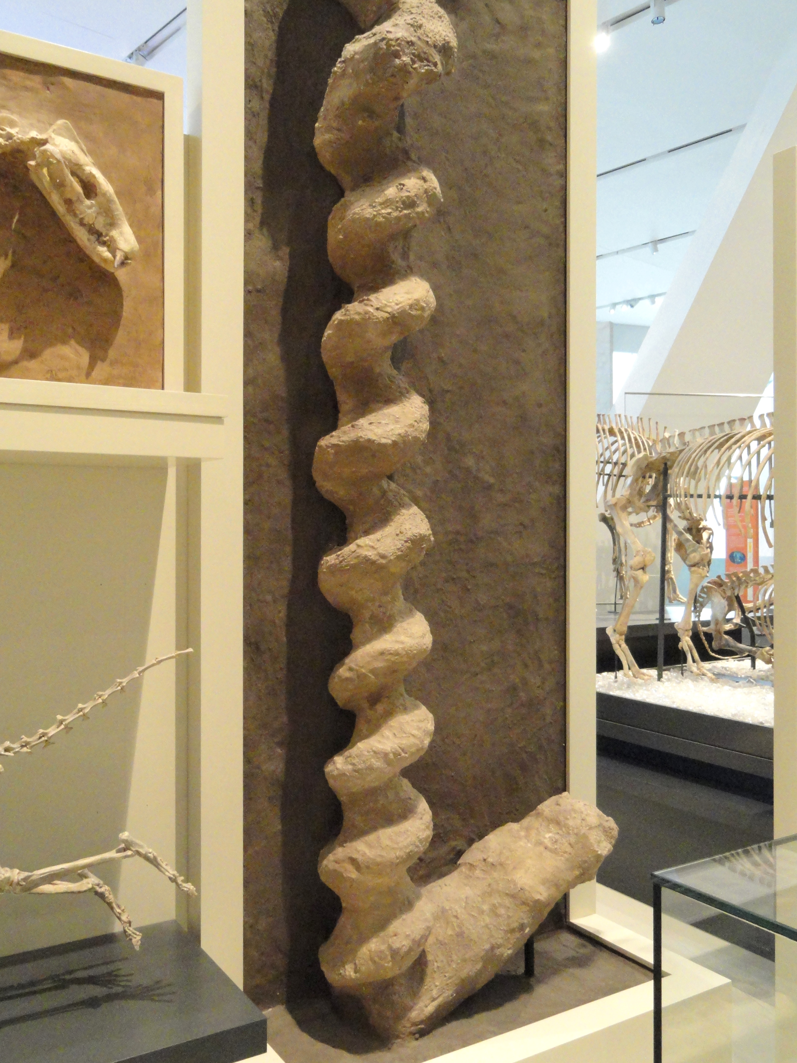 Exhibit in the Royal Ontario Museum, Toronto, Ontario, Canada. This exhibit is old enough so that it is in the public domain, and photography was permitted in the museum. I took this photograph and release it into the public domain.